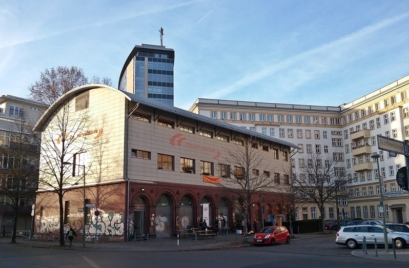 Old Fire Station (Berlin-Friedrichshain)